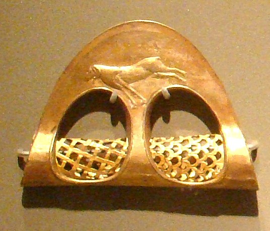 Golden Hache with sheep image founded in Temple of the Obelisks, Byblos (Phoenicia). Beirut National Museum